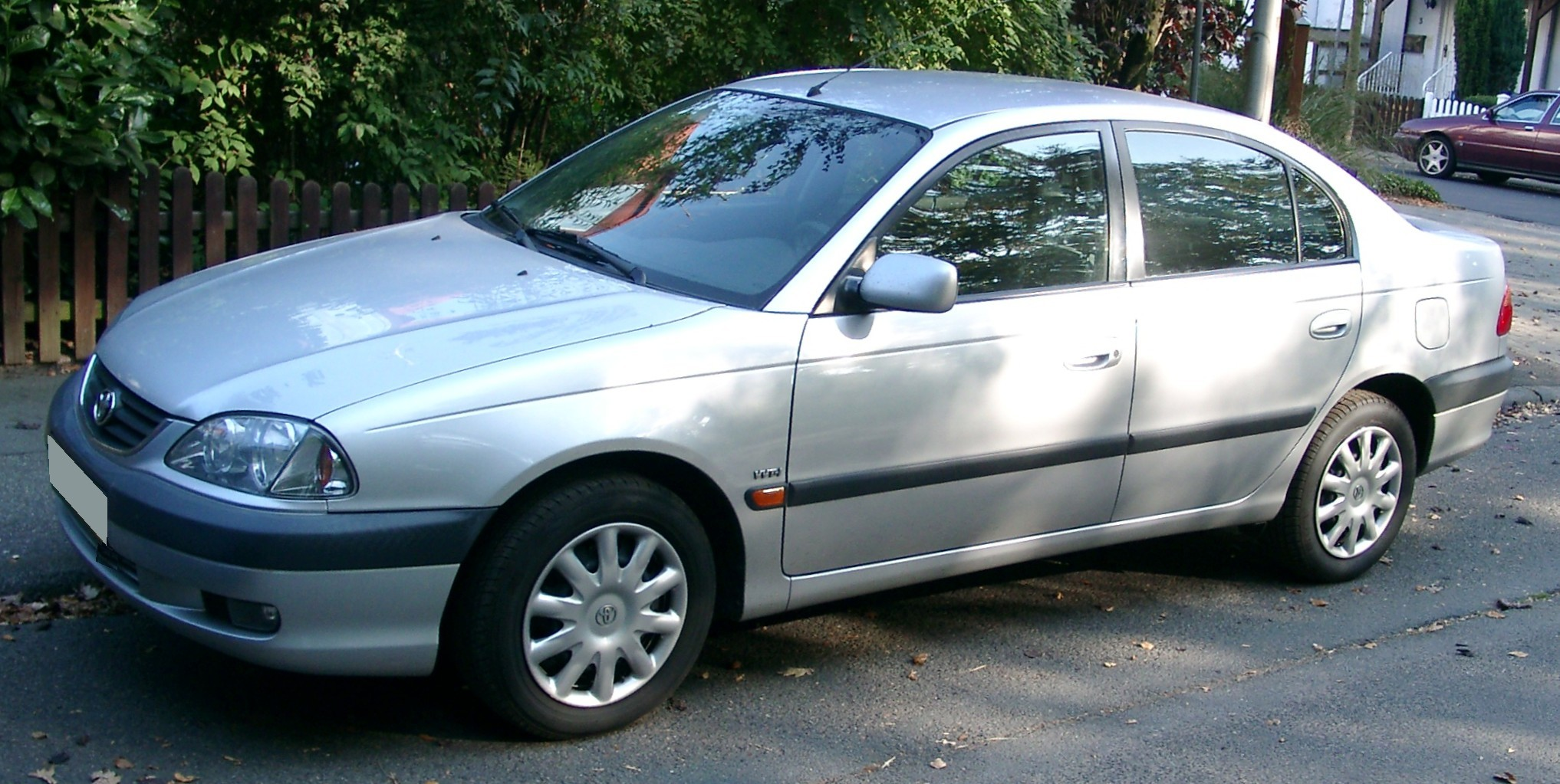 Toyota Avensis, 1. Generation